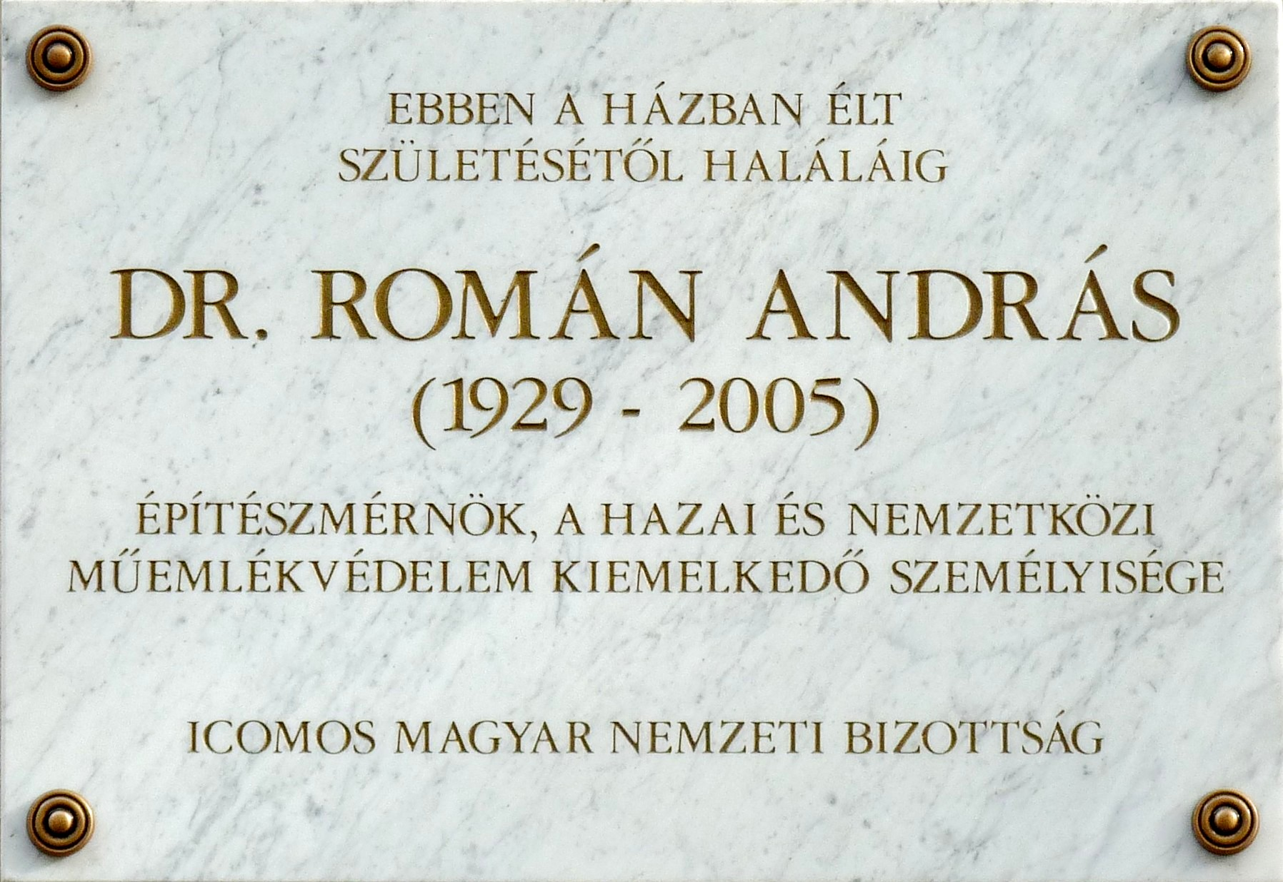 Commemorative plaque to Mr. András Román (Budapest, September 15, 1929 – Budapest, November 13, 2005) Hungarian architect, remarkable character of Hungarian and international protection of the ancient monuments. It is affixed to the wall of the building where he lived. (Budapest, District V, Aulich Street Nr 3).